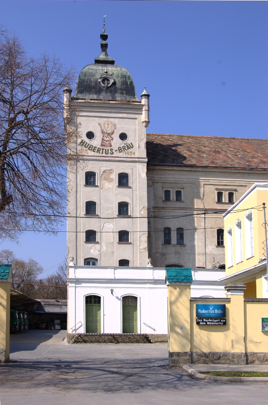 Hubertusbräu, brewery